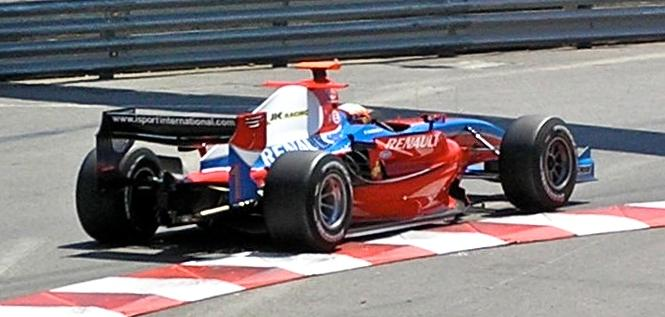 Karun Chandhok driving for iSport International at the Monaco round of the 2008 GP2 Series season.